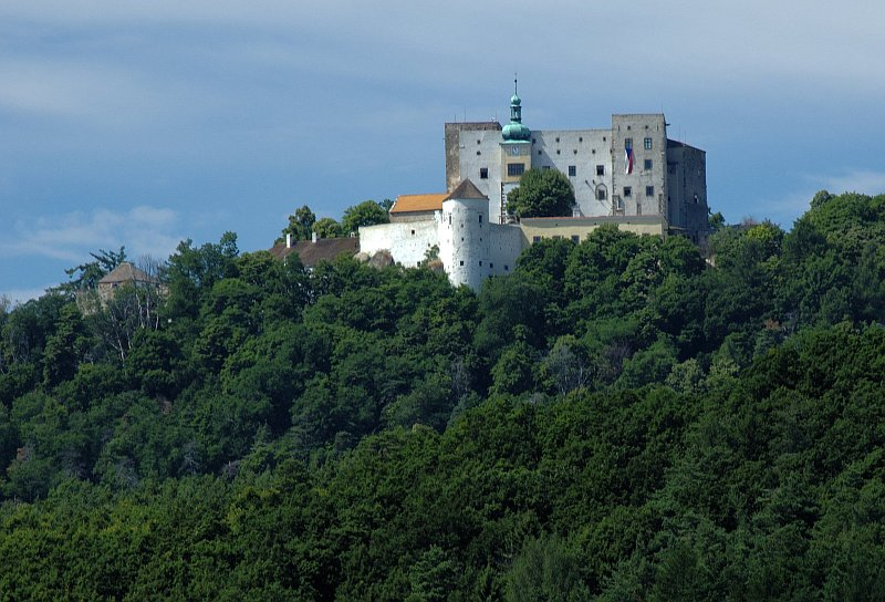 Buchlov castle